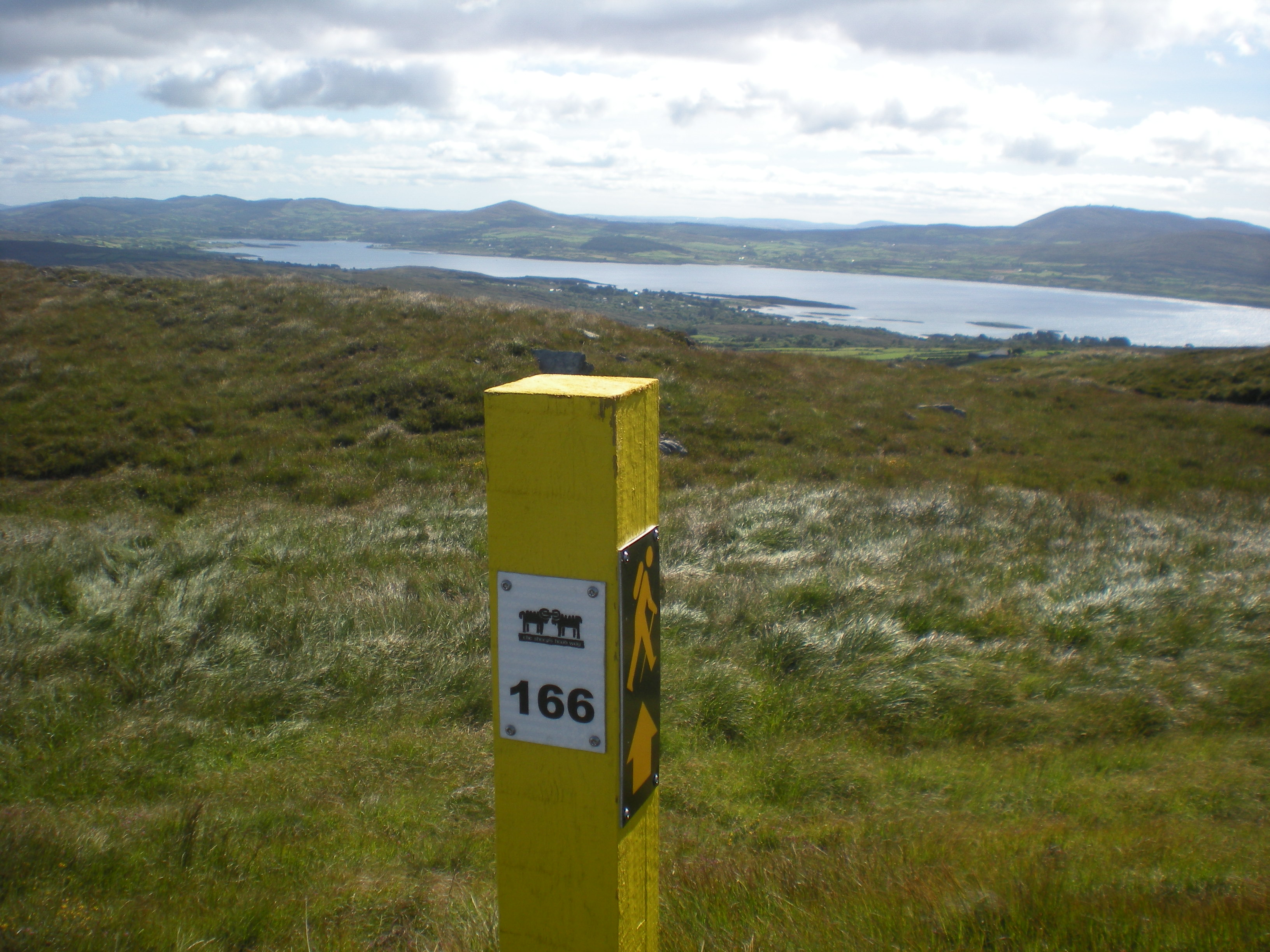 A Marker of the Sheep's Head Way, taken on top of Seefin Mountain, Sheep's Head Peninsula, County Cork, with a view of Dunmanus Bay in the background.